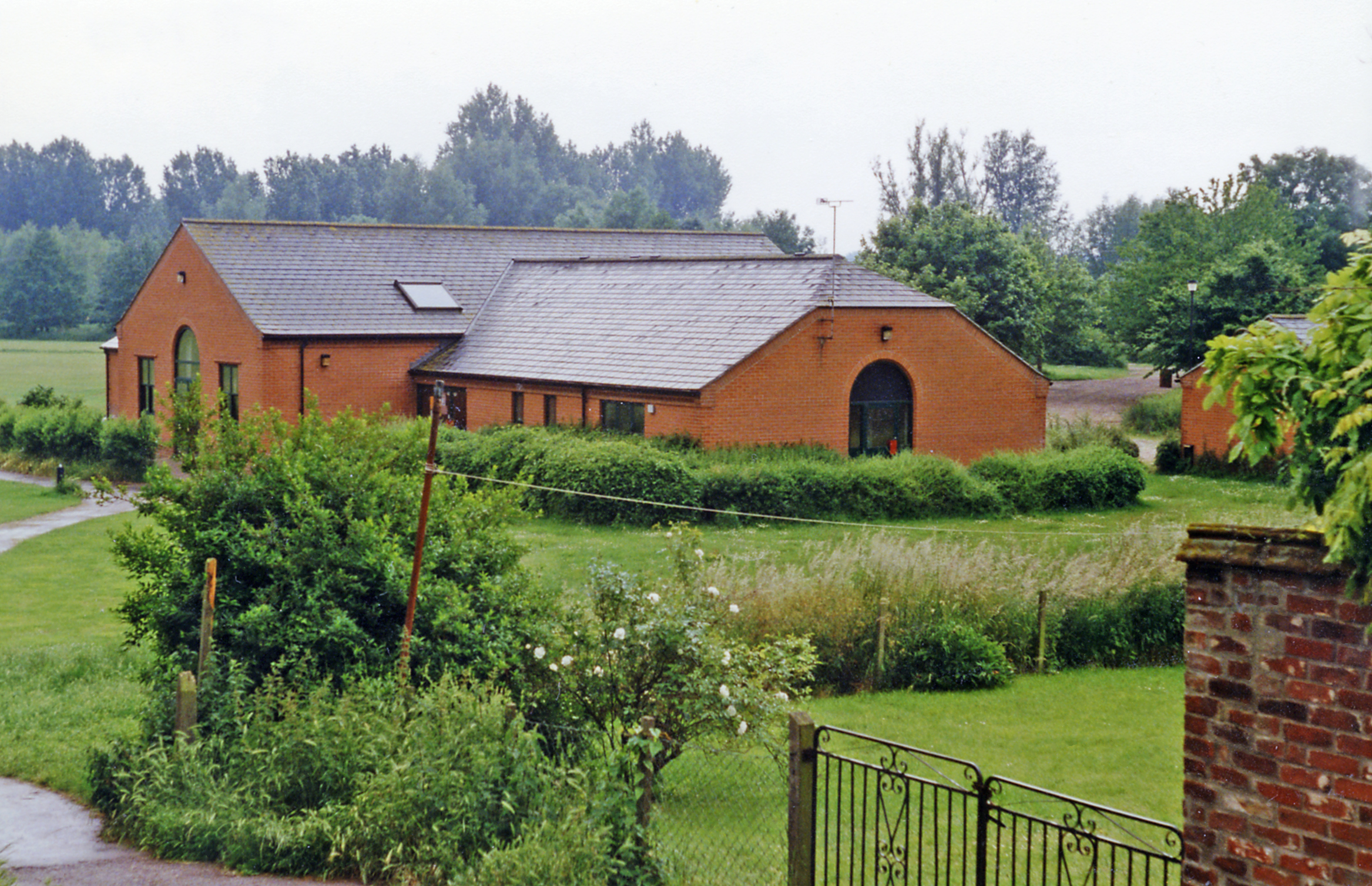 Eye: site of former station, 1997. View NW, towards Mellis: terminus of ex-GER branch from Mellis, closed to passengers from 2/2/31, to